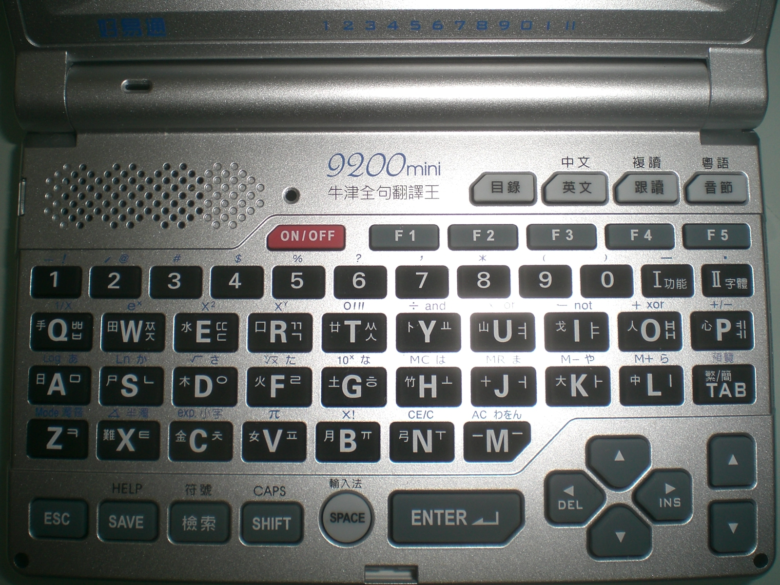 港產好易通電子詞典